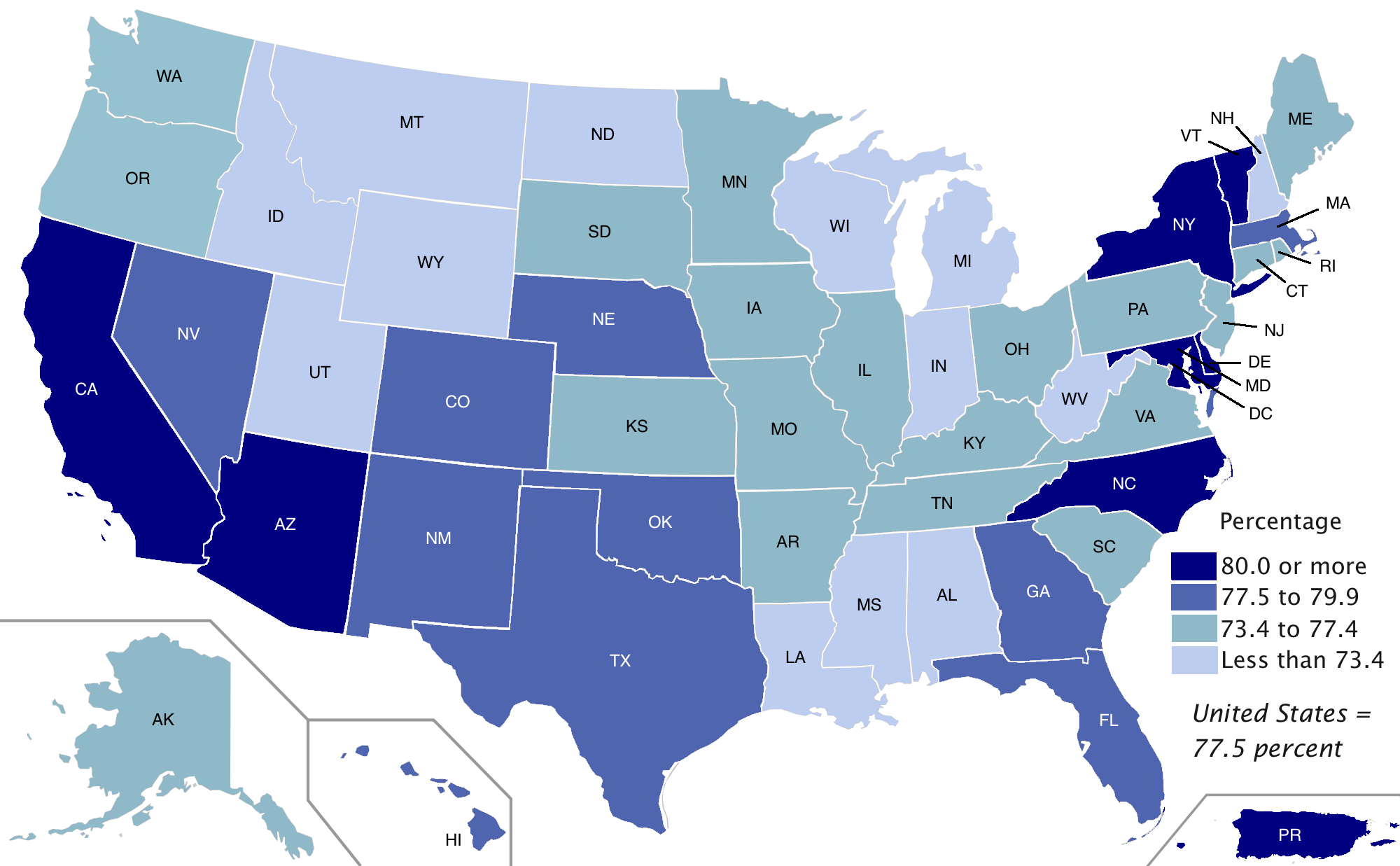 United States gender pay gap, by state in 2006, according to the Income, Earnings, and Poverty Data From the 2007 American Community Survey by the US Census Bureau